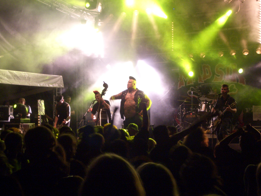 Mad Sin at the Mini-Rock-Festival 2007 in Germany